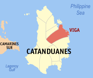 Map of Catanduanes showing the location of Viga